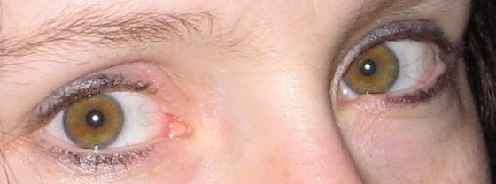 Amber eyes of a German female. Taken by Aarynne.